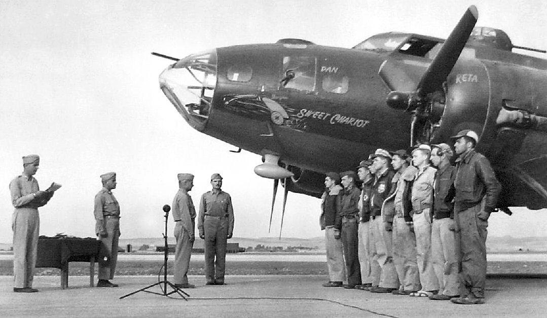 Gen. Jimmy Doolittle awards the Purple Heart to the aircrew of Boeing B-17F Flyng Fortress, ‘Sweet Chariot’ in Italy, February 1944.